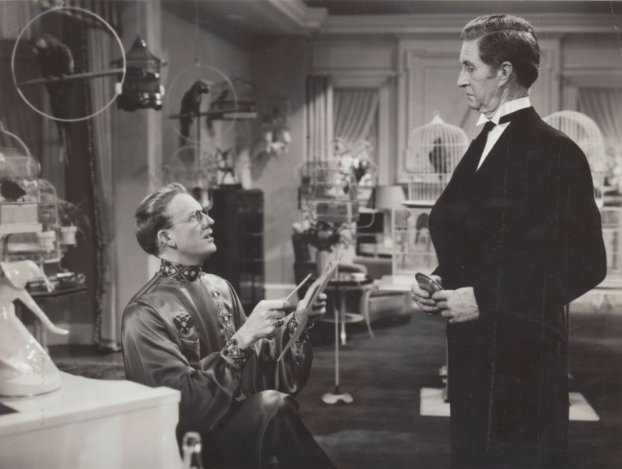 Press photo of Pinky Tomlin and Russell Simpson in the 1935 film "Paddy O'Day"